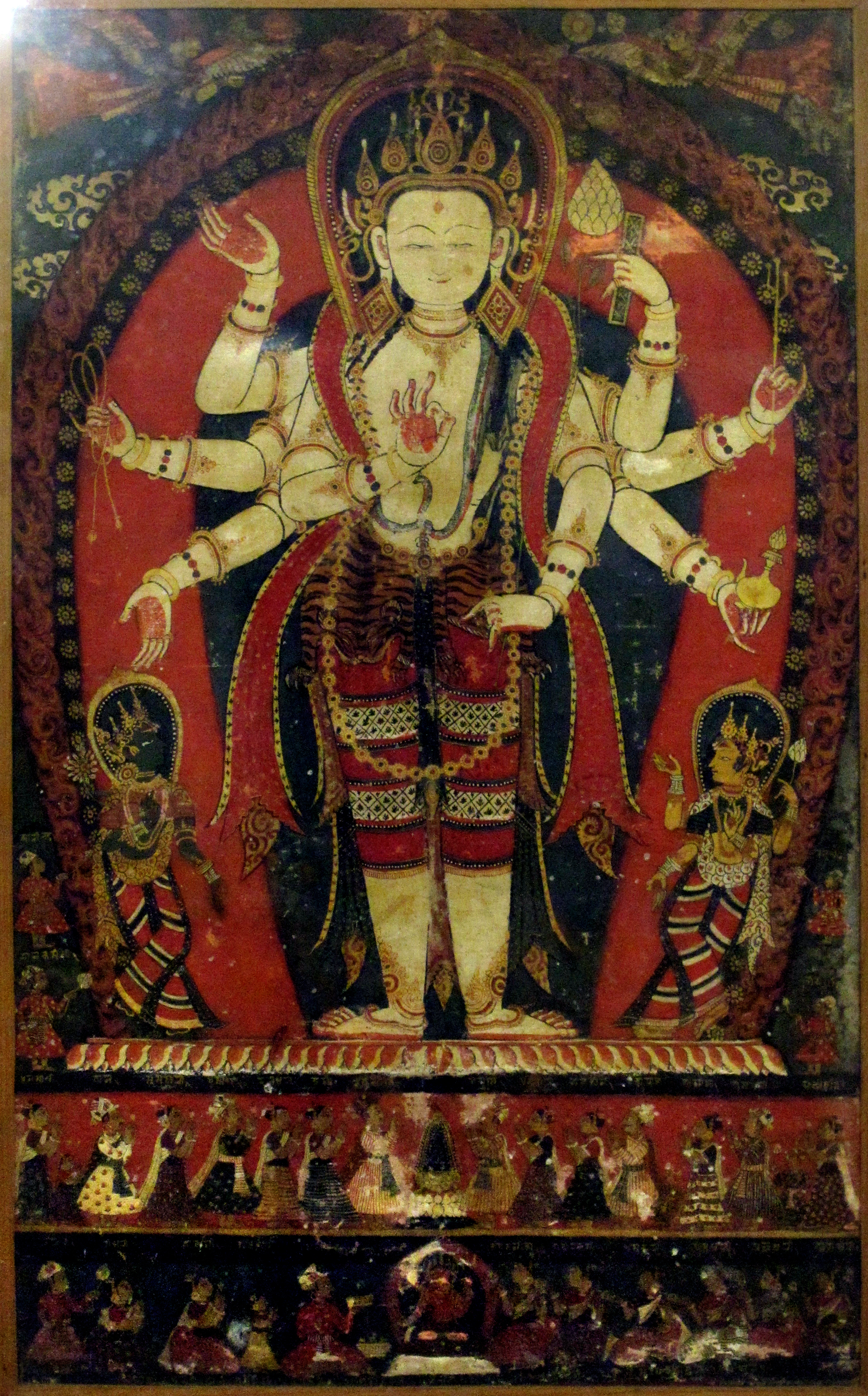 Avalokiteswara Aghorapasa. Tibetan Pattern. 17th-18th cent. Bharat Kala Bhavan Acc. No. 5704. Varanasi